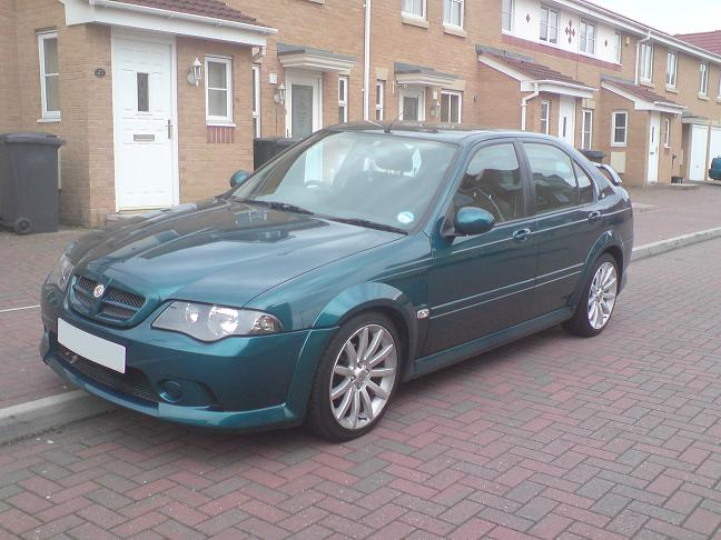 MG ZS mk2 - newest version with full stock upgrades.